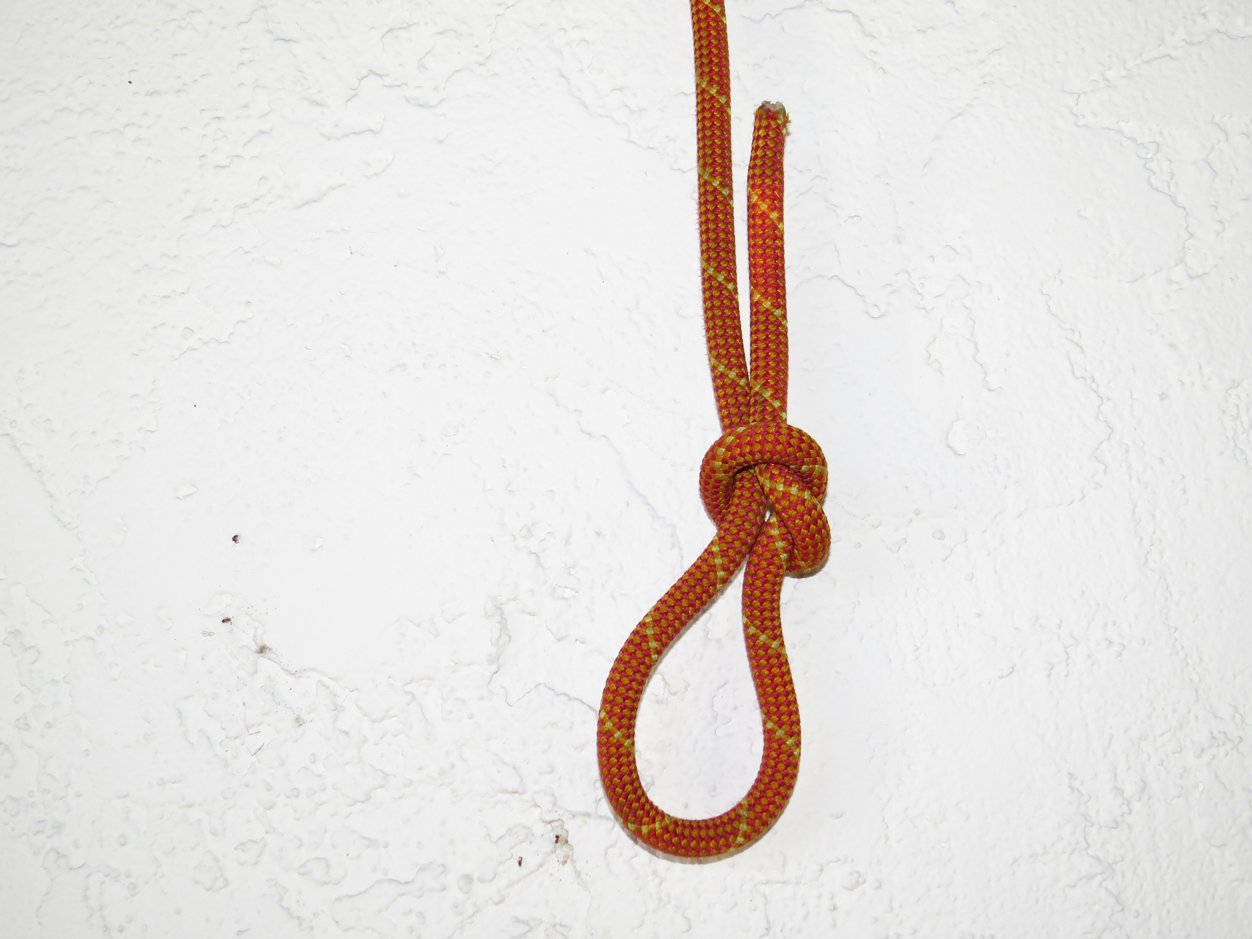 Tensionless hitch